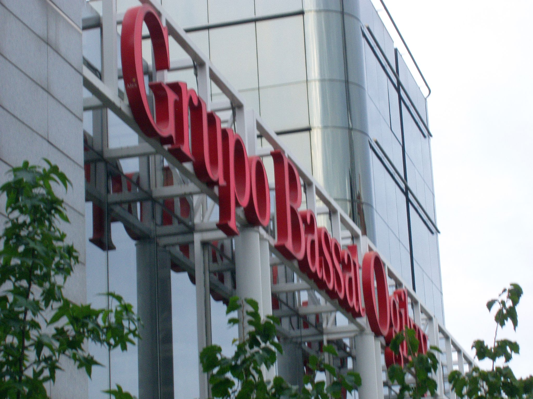 Bassat Ogilvy building in Madrid